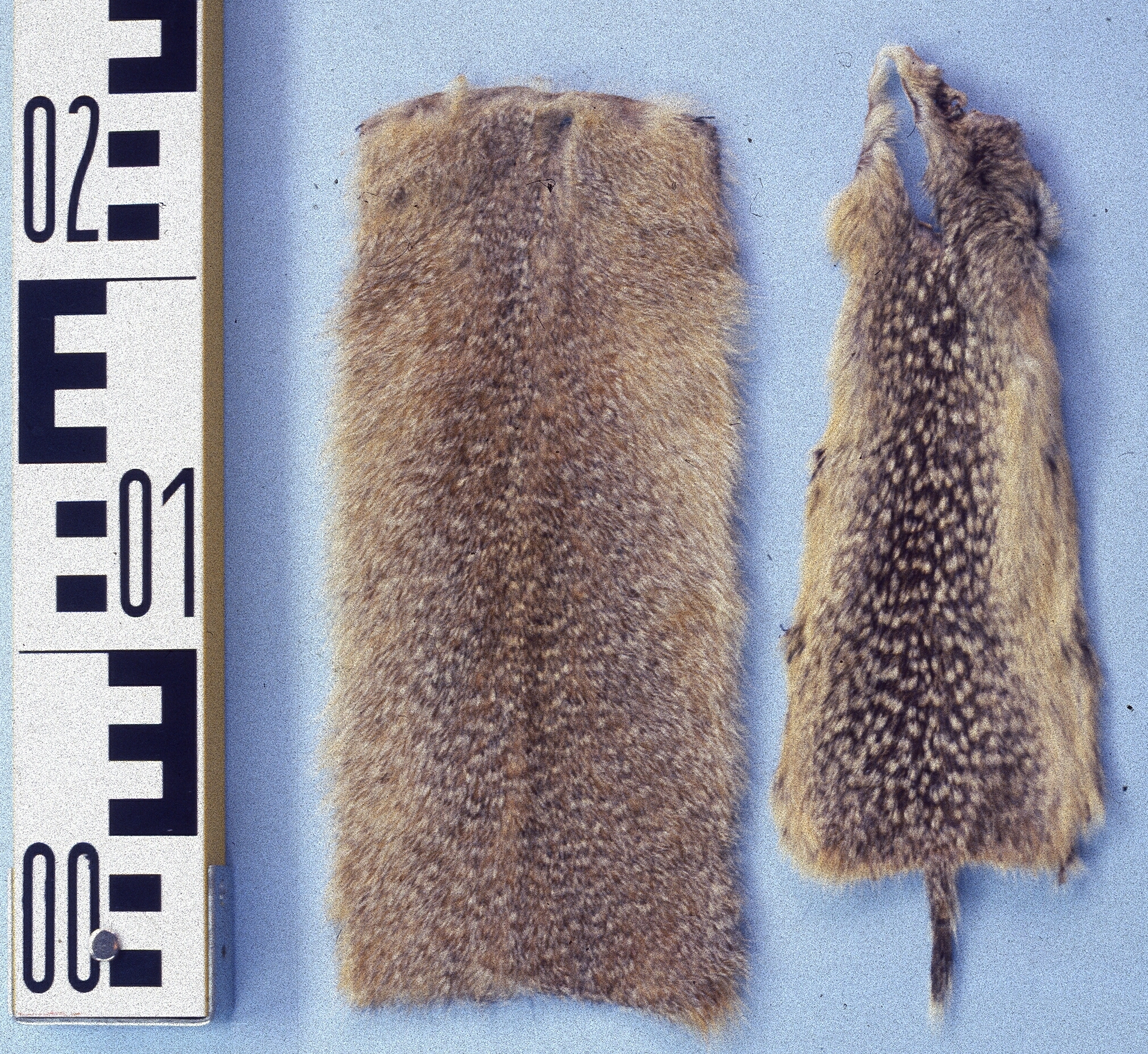 Fur skins of Long-tailed Ground Squirrel (Spermophilus undulatus) and Speckled Ground Squirrel (Spermophilus suslicus) from the fur skin collection, Bundes-Pelzfachschule, Frankfurt/Main, Germany